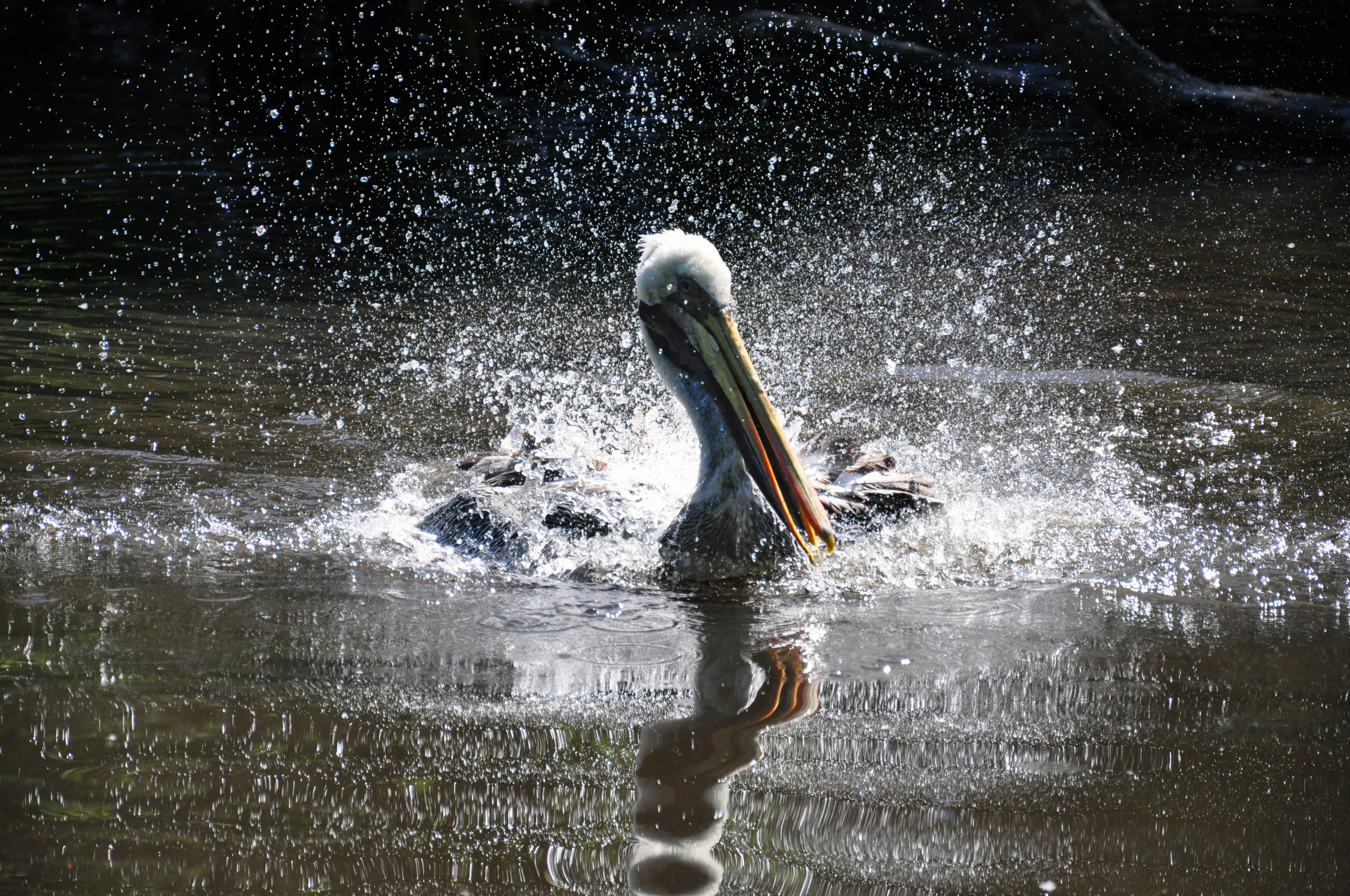 Dalmatian Pelican (Pelecanus crispus) at Weltvogelpark Walsrode (Walsrode Bird Park, Germany)